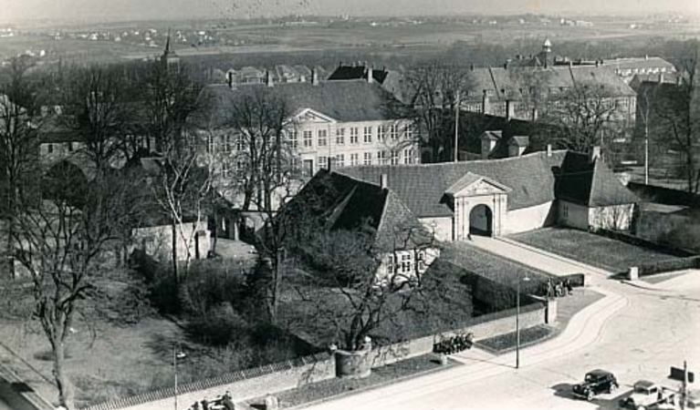 Roskilde Royal Mansion in Roskilde, Denmark. Viewed from Stændertorvet.